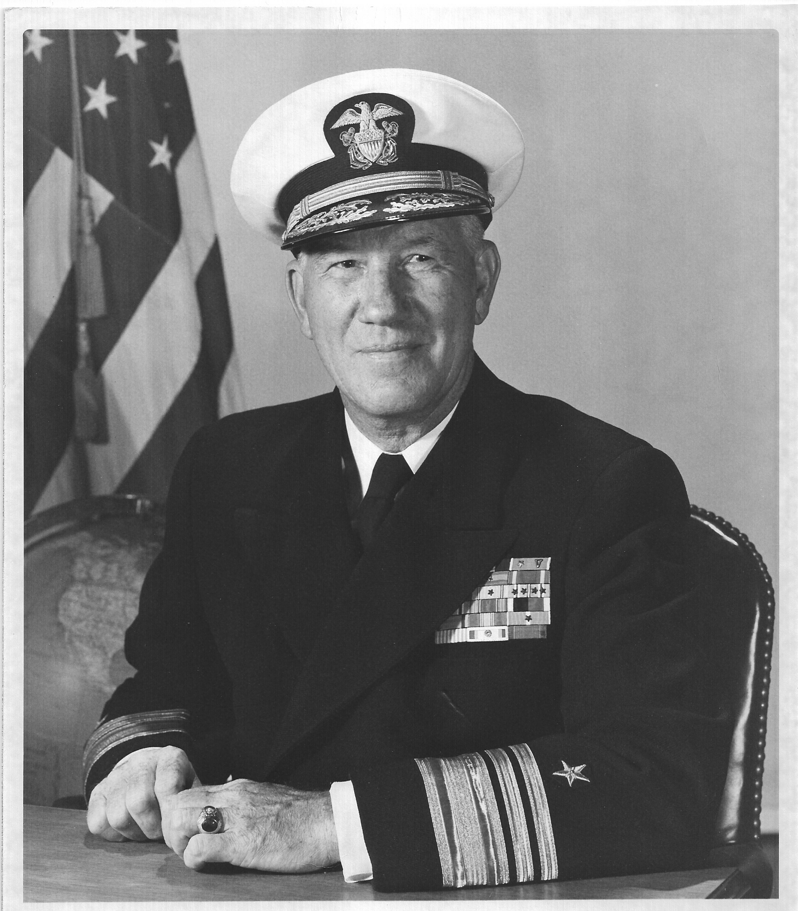 Official Navy Photograph of Admiral Roy Alexander Gano